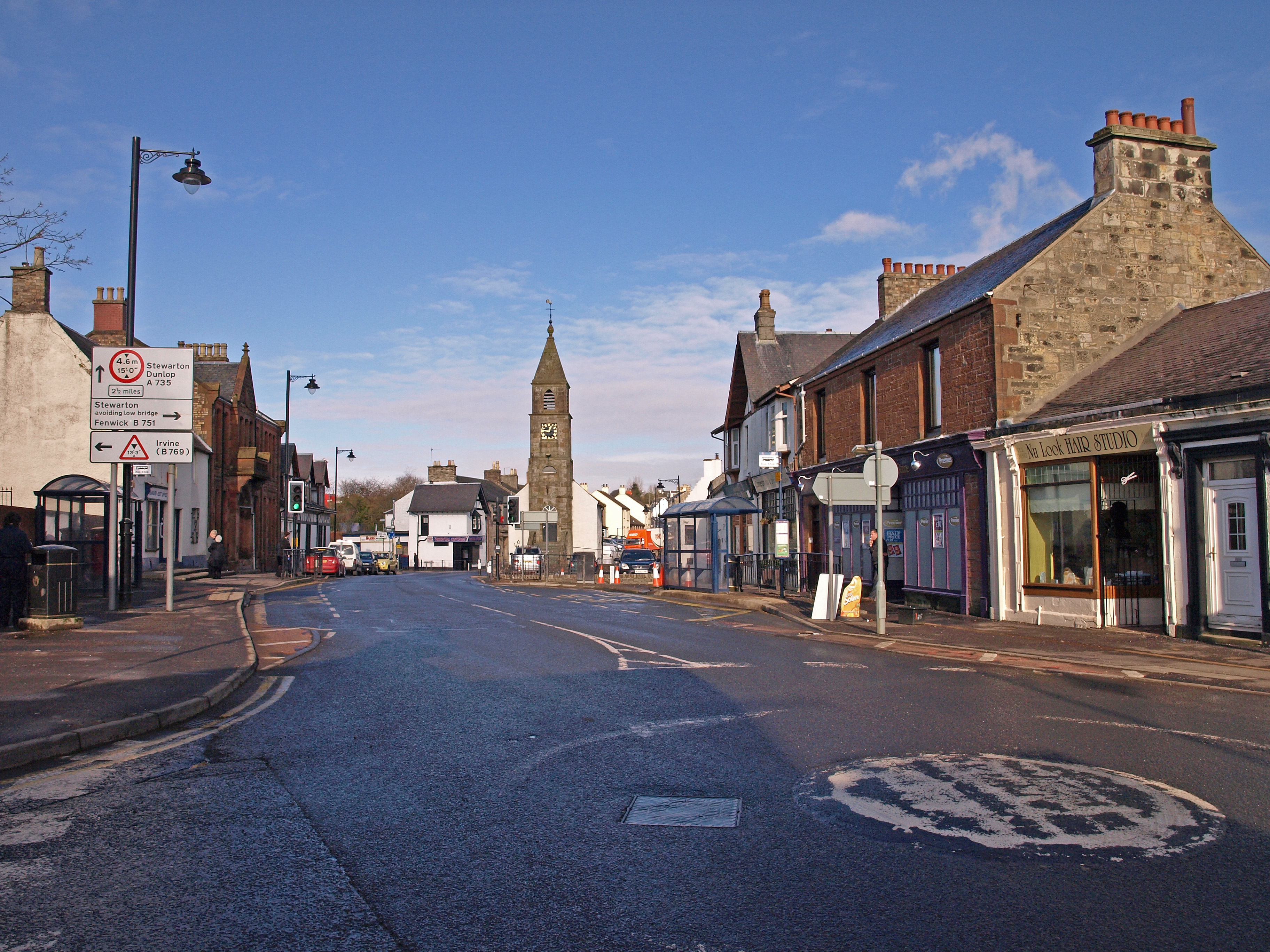 Mini-roundabout, Kilmaurs Looking north towards the town centre along Townend.